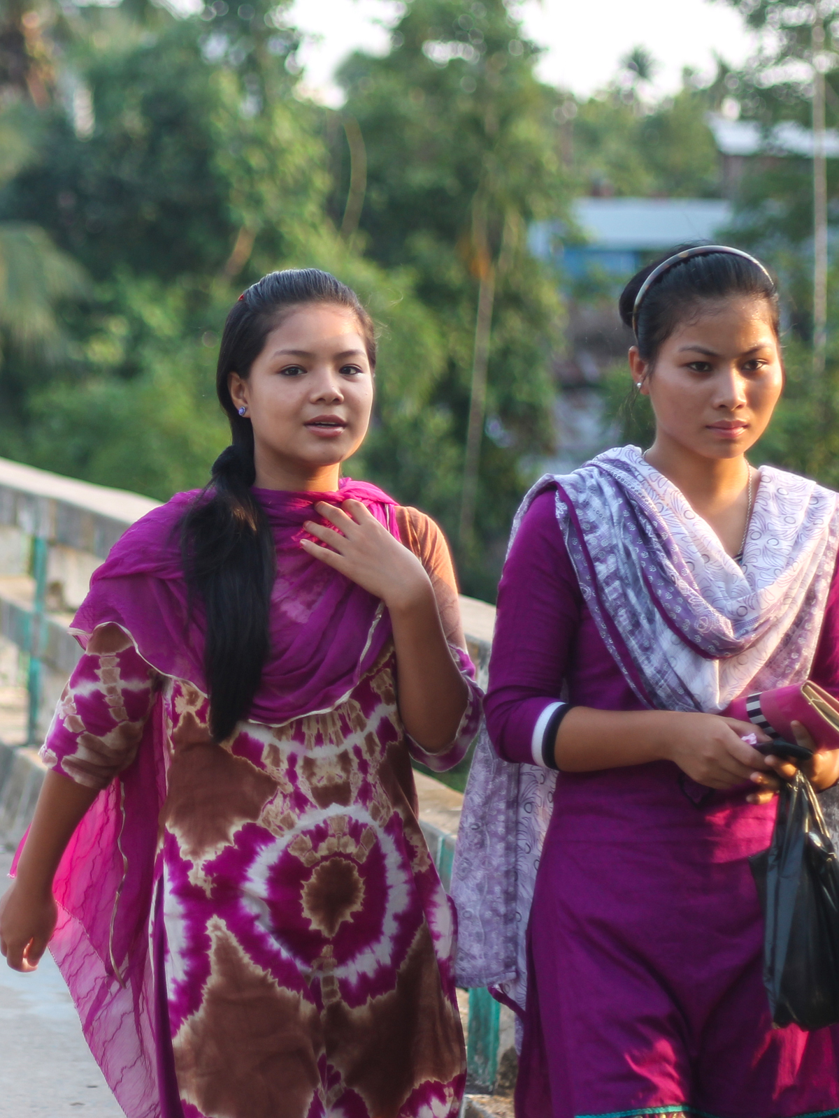 Face & dress-up of a tribal people called 'The Chakma people' living in Bangladesh hill-tracts, parts of northeastern India, western Burma and China Rangamati Rajban Bihar, Rangamati, Bangladesh 13-May-2014